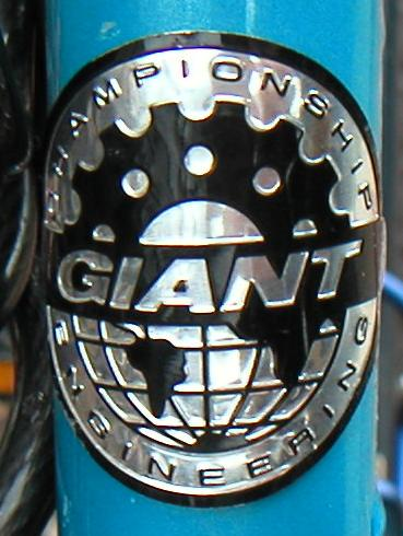 Taken by Andrew Dressel